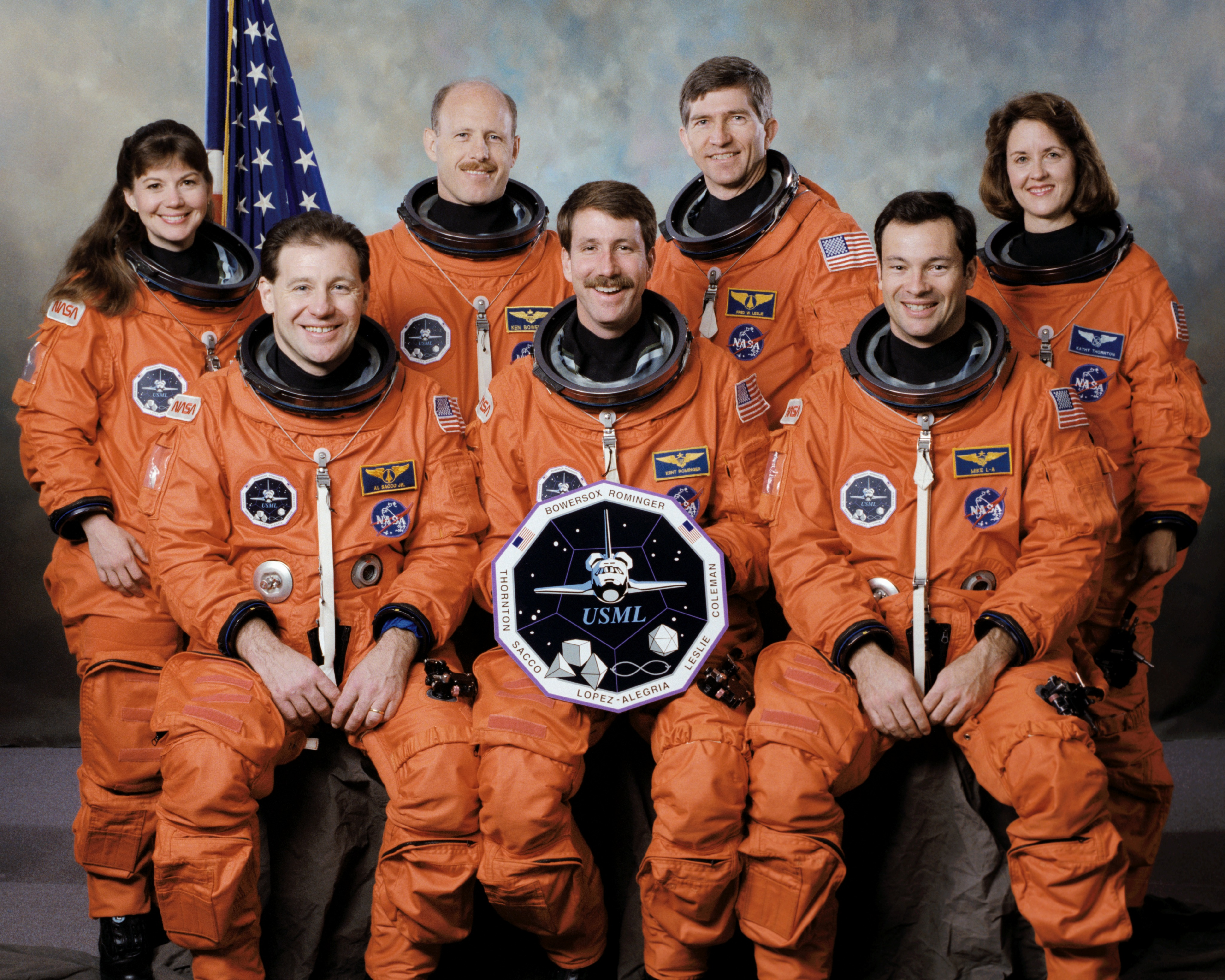 Crew of the Space Shuttle mission STS-73. NASA photo STS073-S-002 taken July 1995. :On the front row, left to right, are Albert Sacco Jr., payload specialist; Kent V. Rominger, pilot; Michael E. Lopez-Alegria, mission specialist. On the back row are, left to right, Catherine G. Coleman, mission specialist; Kenneth D. Bowersox, commander; Fred W. Leslie, payload specialist; and Kathryn C. Thornton, payload commander.